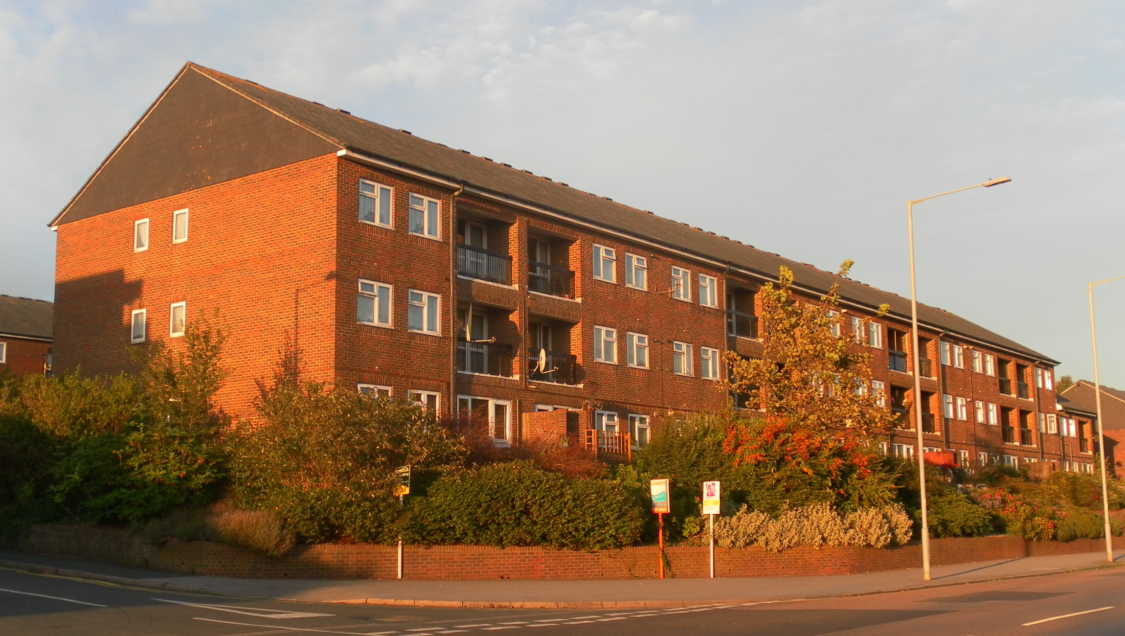 Some of the council flats at Ingram Crescent, a small development off Portland Road, Hove, City of Brighton and Hove, England.